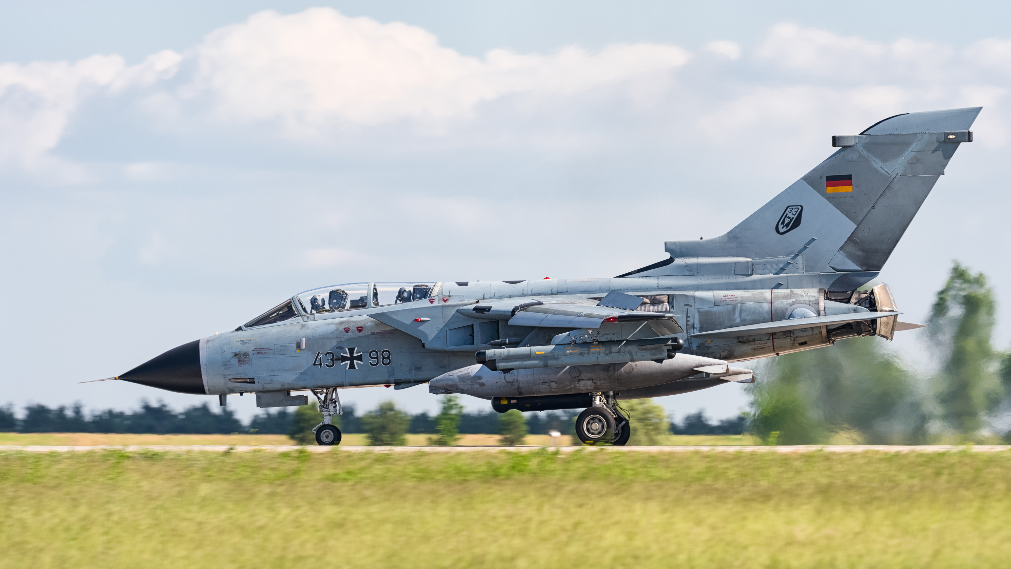 German Air Force Panavia Tornado IDS (reg. 43+98, cn 253/GS065/4098) at ILA Berlin Air Show 2016.